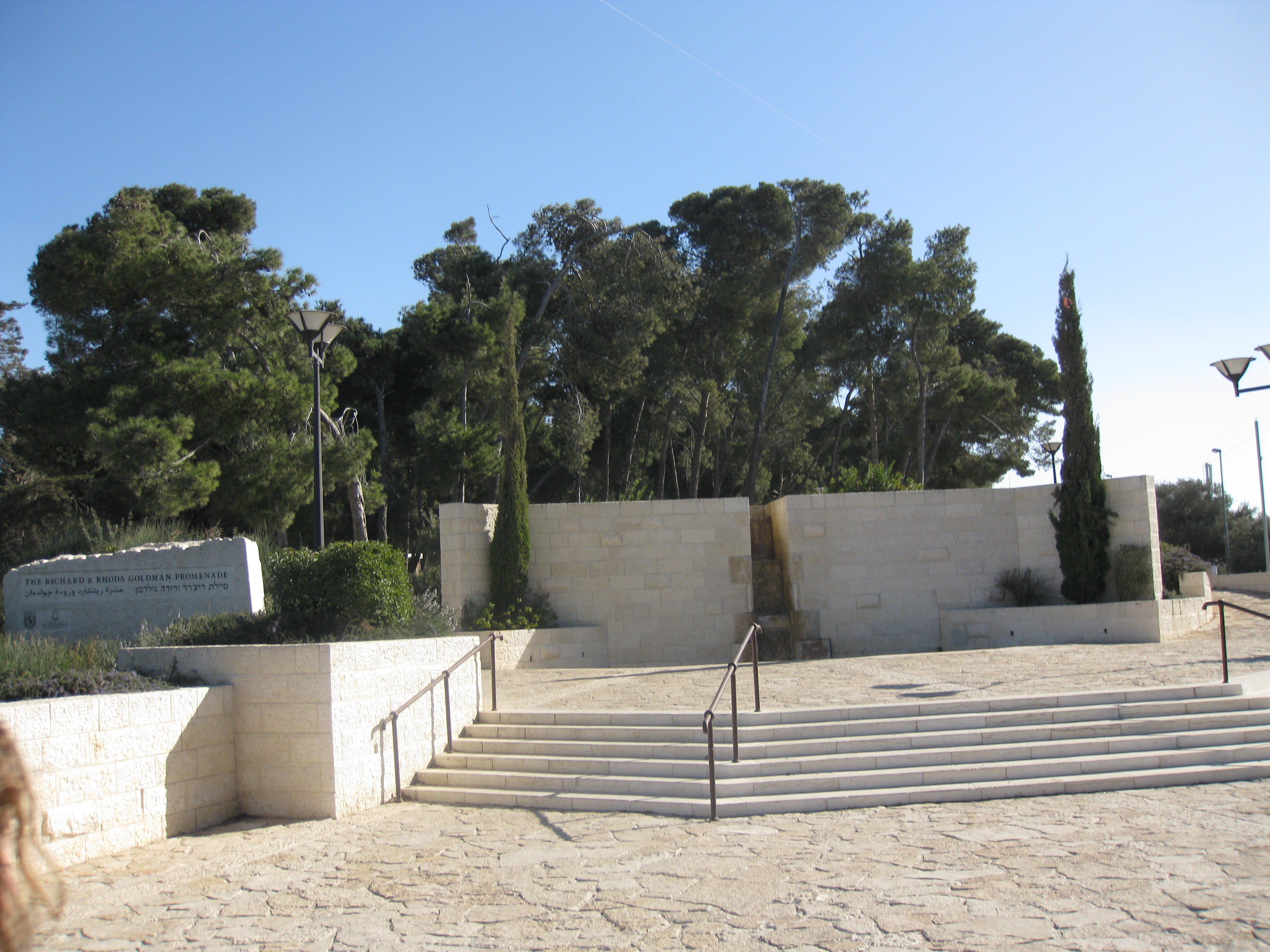 Armon Hanatsiv Promenade